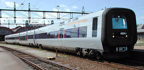 An Oresundtrain, here seen situated in Malmö Central Station in Malmö.